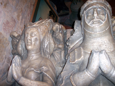 Burial effigy of Earl Robert de Ferrers (de Ferrieres) and wife Margaret Peverel. Photo taken Sept. 2006 by descendant of Ferrers and Peverel, at Merevale Abbey parish church, north Warwickshire, UK.